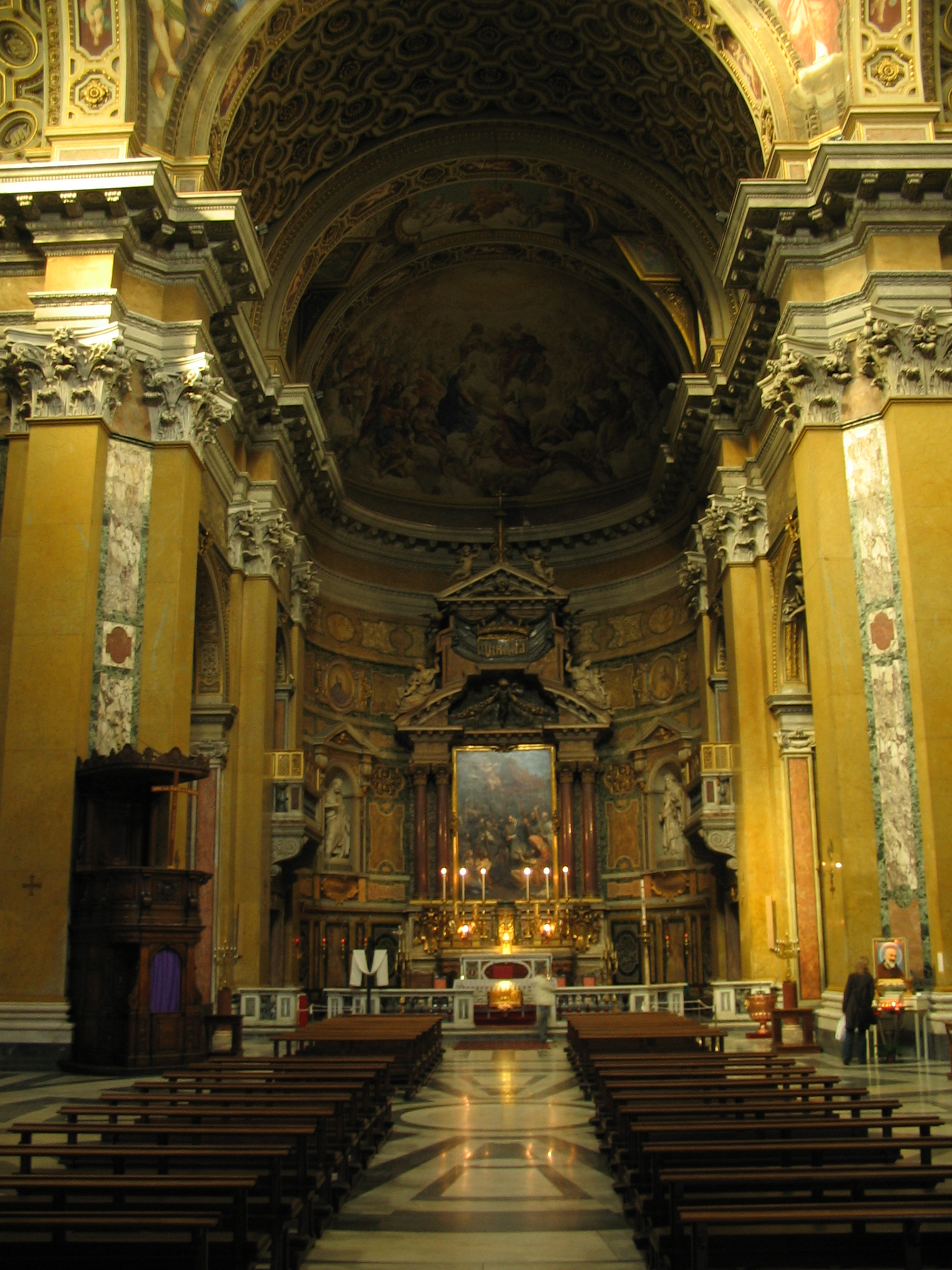 Interior of San Carlo ai Catinari, Rome